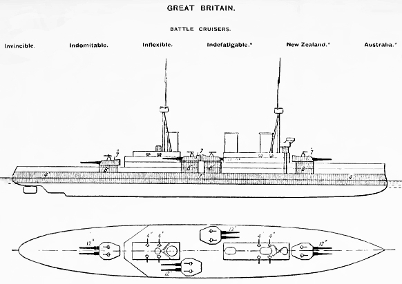 Plan and side views of the Invincible class battlecruisers. NOTE : Brassey's claims this also depicts the Indefatigable class, but the layout of the Indefatigable class was quite different.